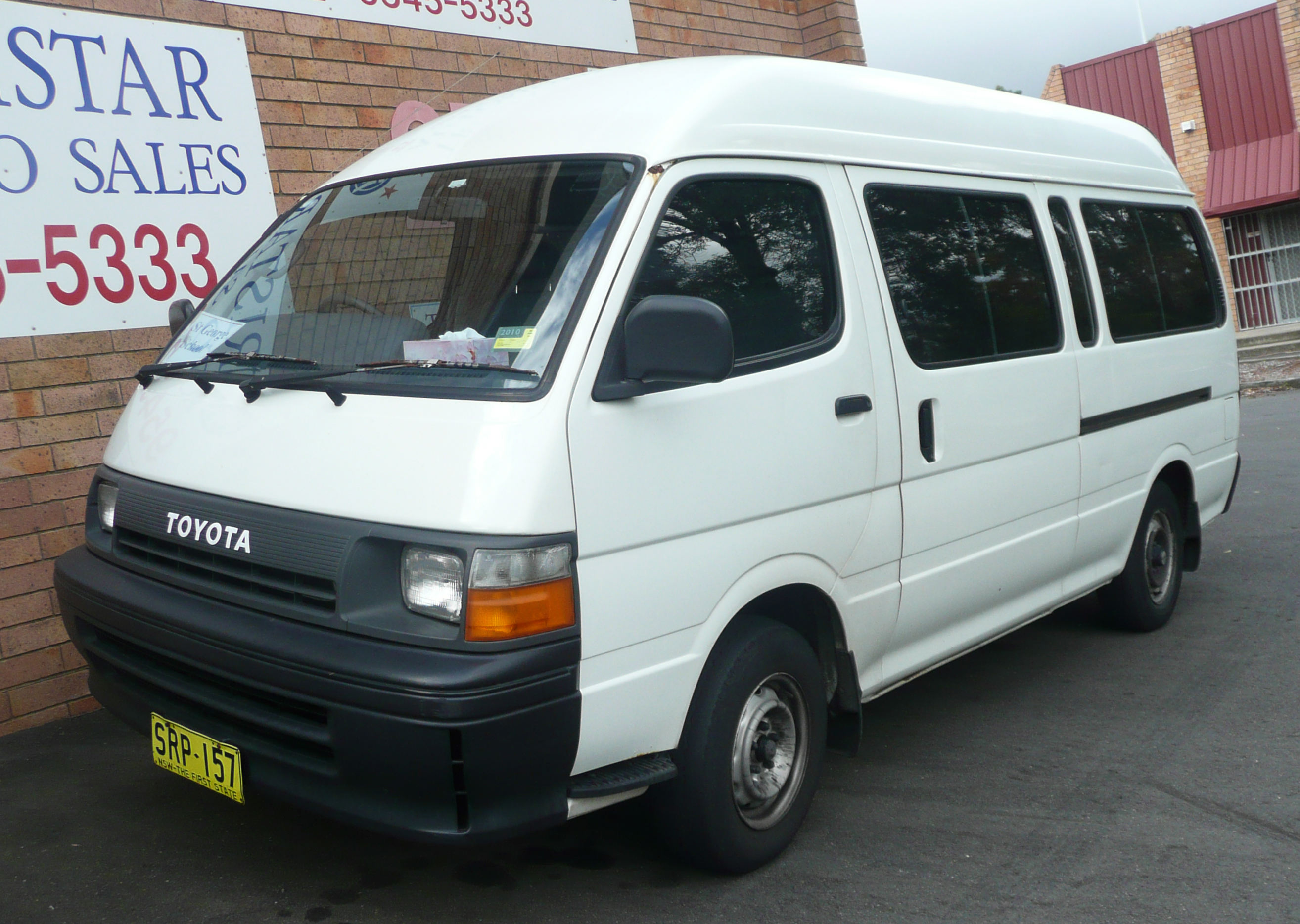 1989–1994 Toyota HiAce (RZH125R) Commuter van. Photographed in Kirrawee, New South Wales, Australia.